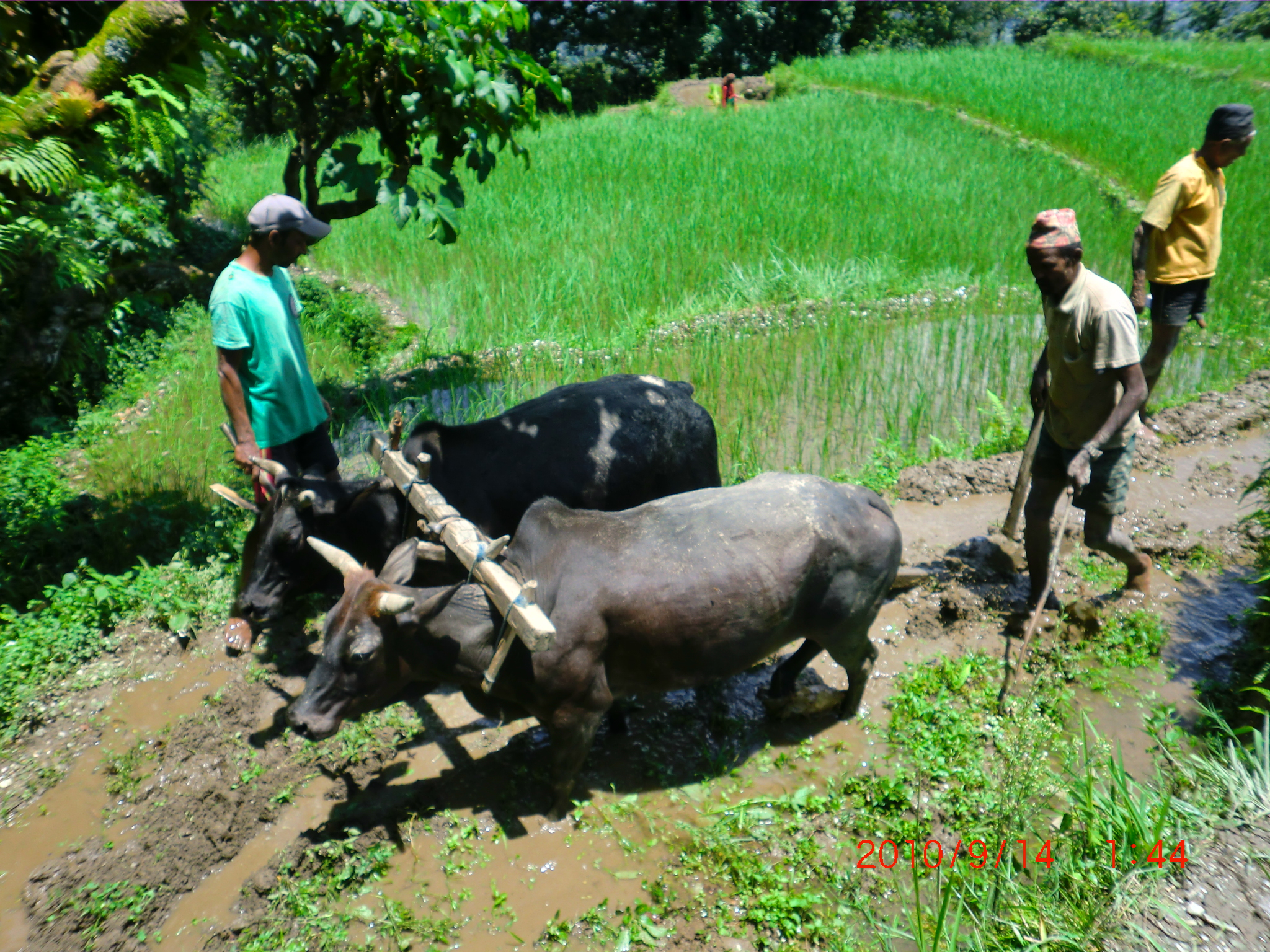 You can see the traditional agriculture practice applied in Dhital Village